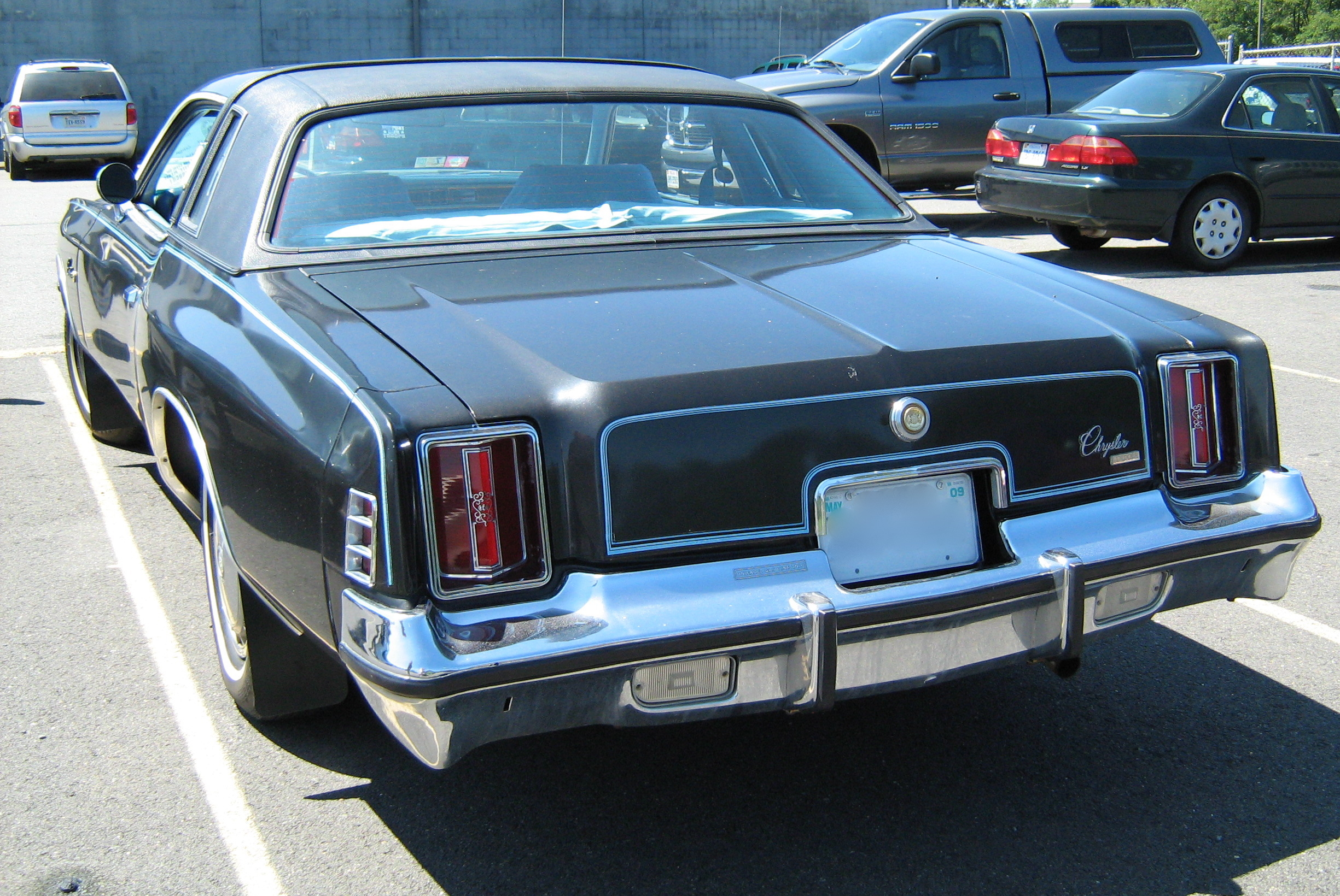 Chrysler Cordoba in blue, rear view.